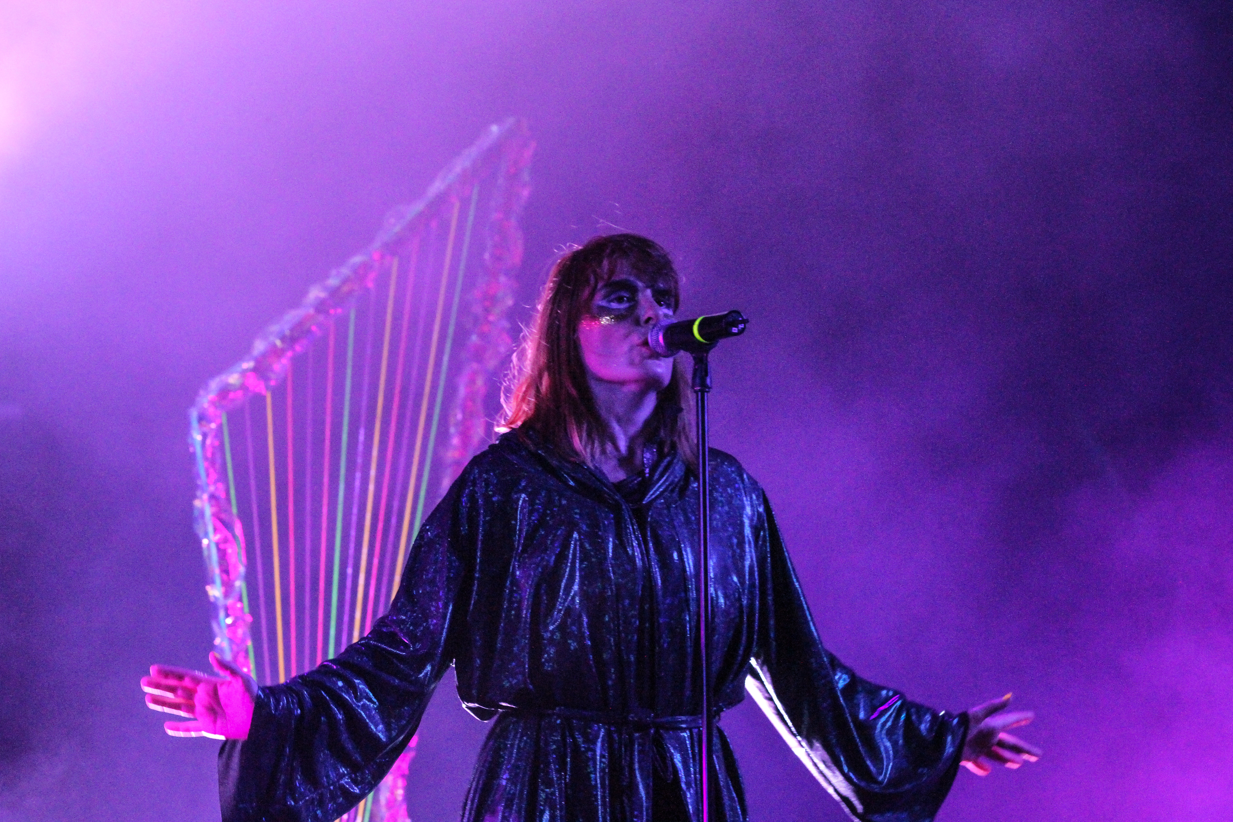 The Knife performing at Melt! Festival 2013